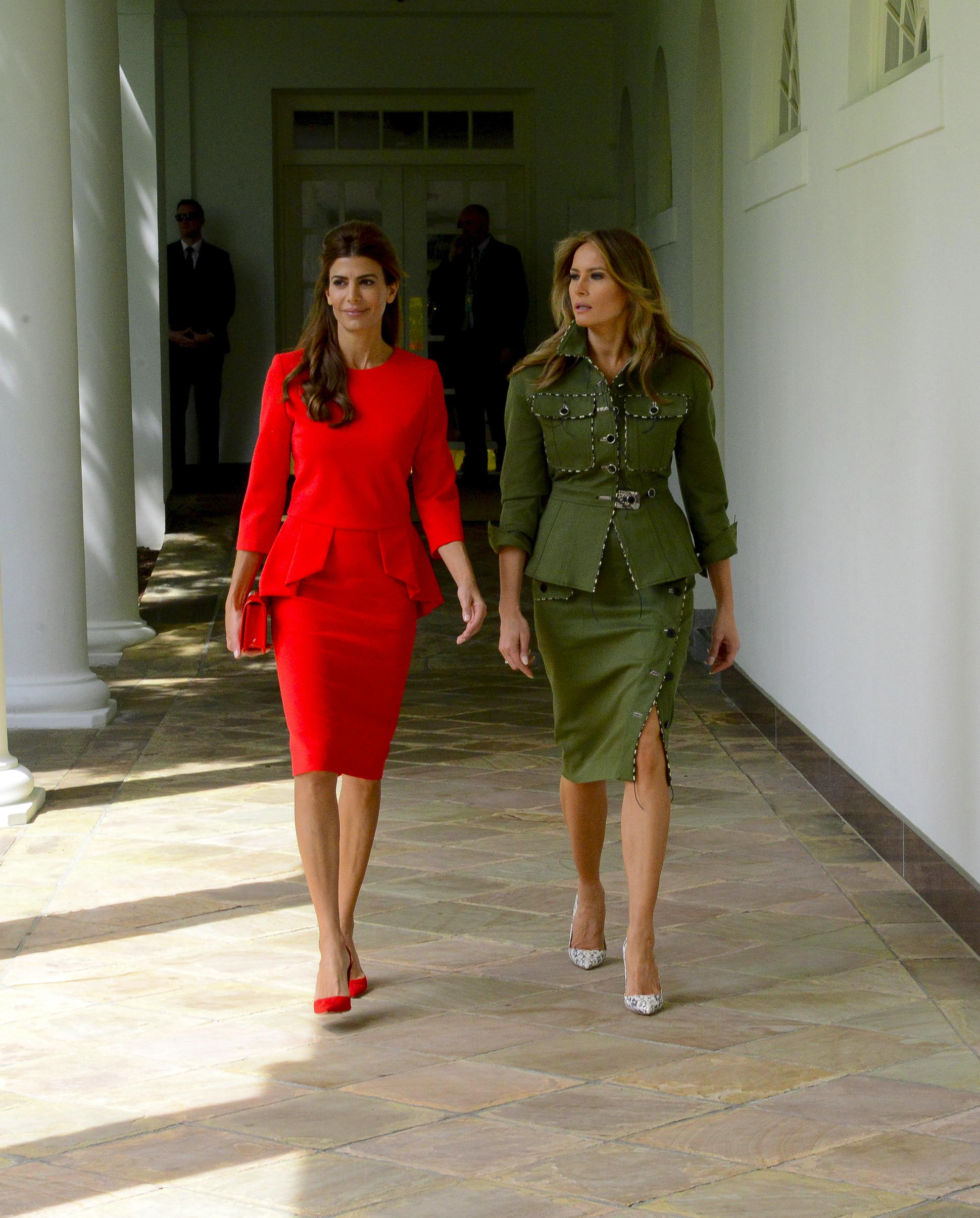 Melania Trump, First Lady of the United States with her Argentine counterpart, Juliana Awada. (Melania Trump wears a military-inspired jacket and matching skirt from the Altuzarra Spring 2017 runway collection [1])